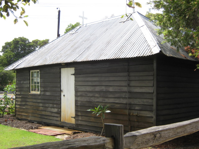 St Nicholas Church, originally a worker's cottage, is 3.6 metres in width and 8.2 metres in length, and is believed to be the smallest church in Australia.